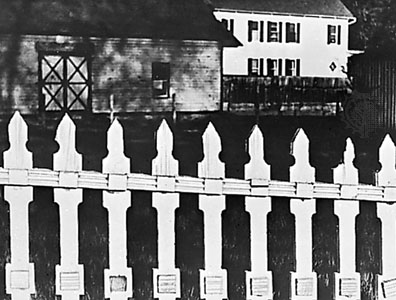 White Fence